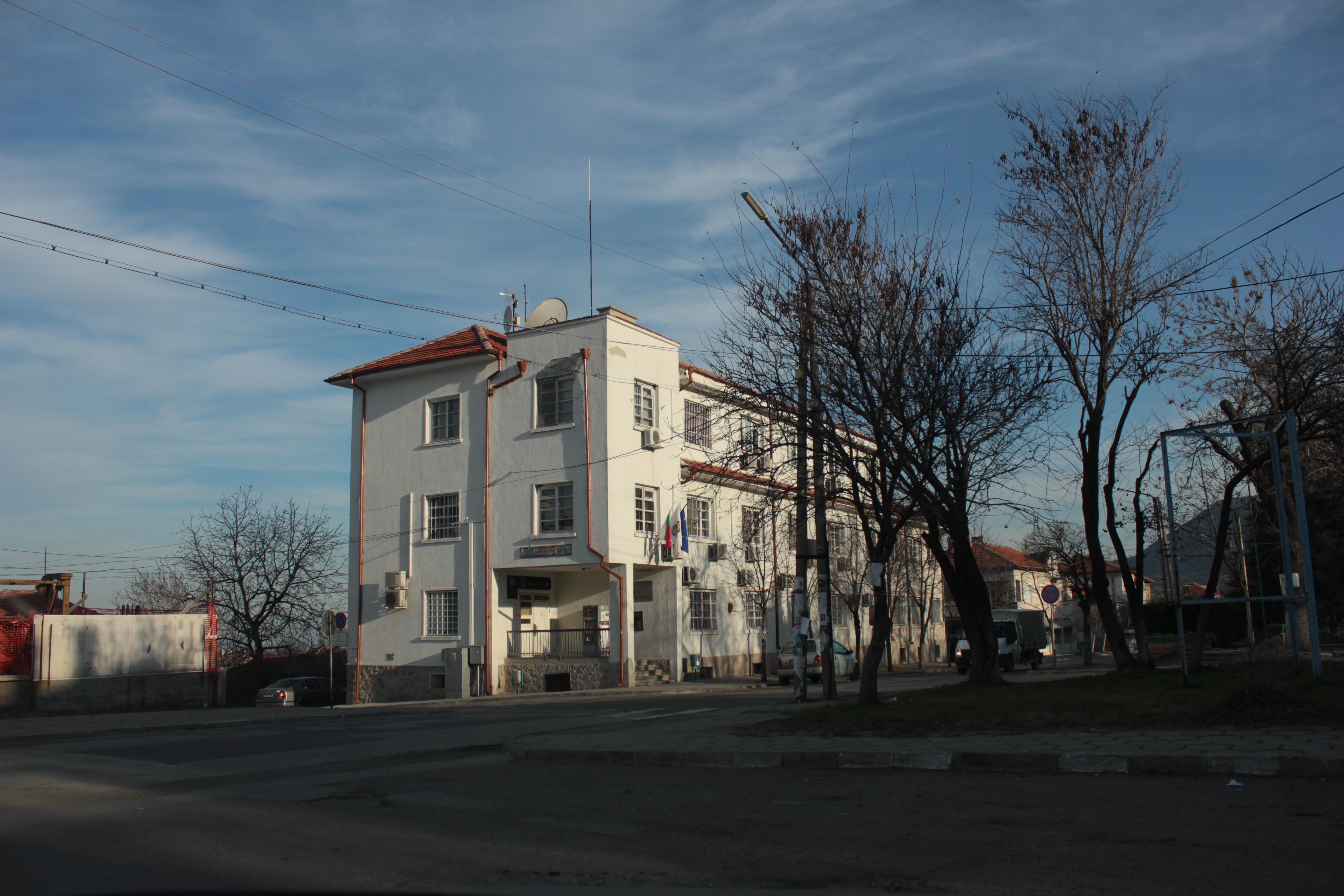 Kuklen Municipality Office